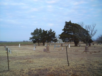 picture taken by J. M. Branum January 2004 at Pine Ridge, Oklahoma (the junction of the old Ozark Trail and the Fort Cobb Rd.)